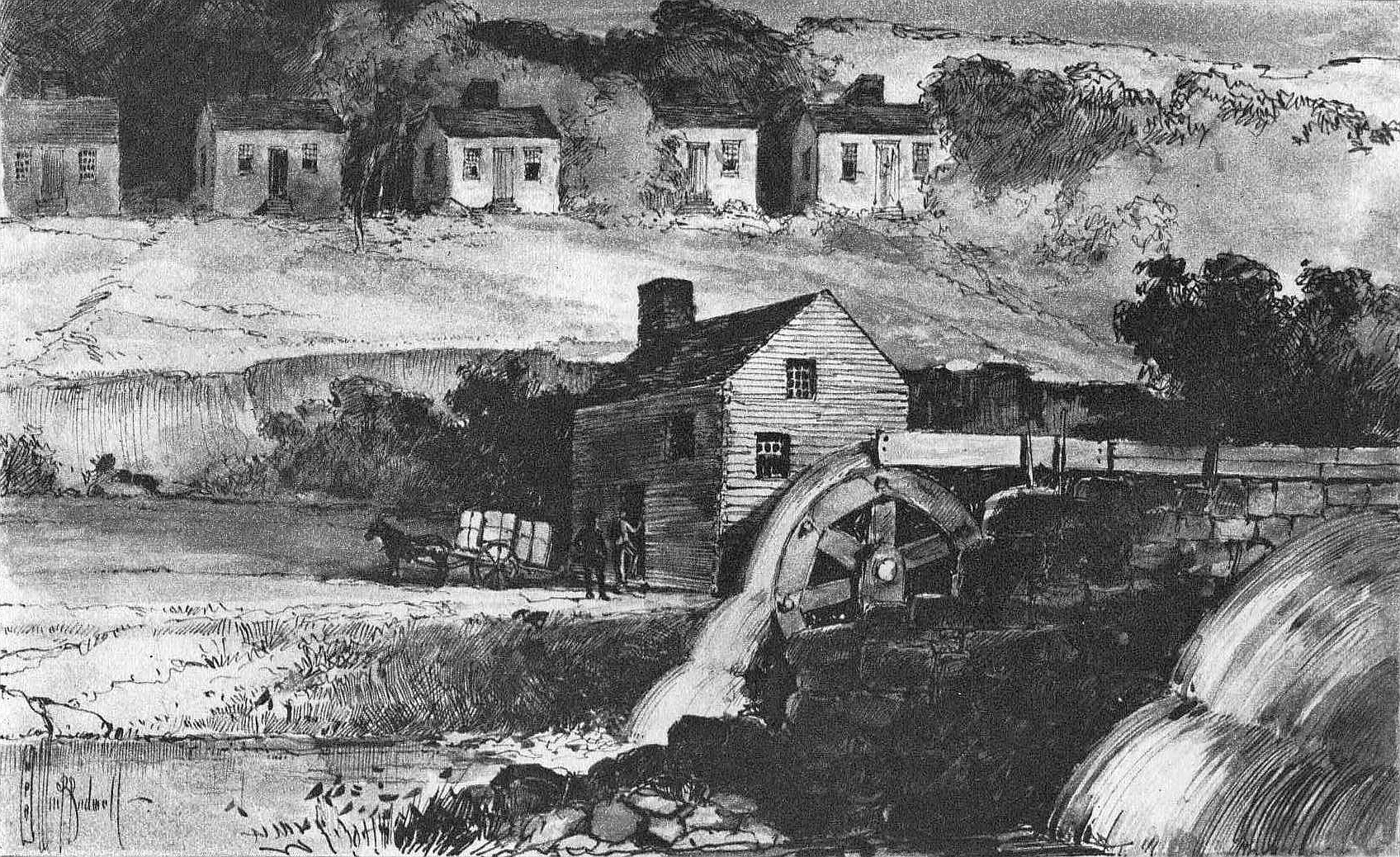 "Lincolnton Cotton Mills, Lincolnton, 1813, First Cotton Mill in North Carolina," etching of the first cotton mill in North Carolina, built by Michael Schenck. Schenck was born in Lancaster County, Pennsylvania, in 1771.